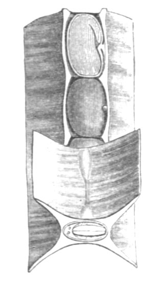 Illustration from book